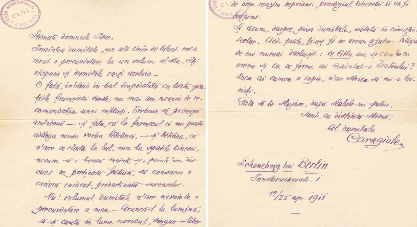 Letter (postcard) from Romanian dramatist Ion Luca Caragiale to aspiring poet Emil Isac, explaining the reasons for refusing to preface Isac's debut volume. Issued from Caragiale's residence in Berlin, 1911.